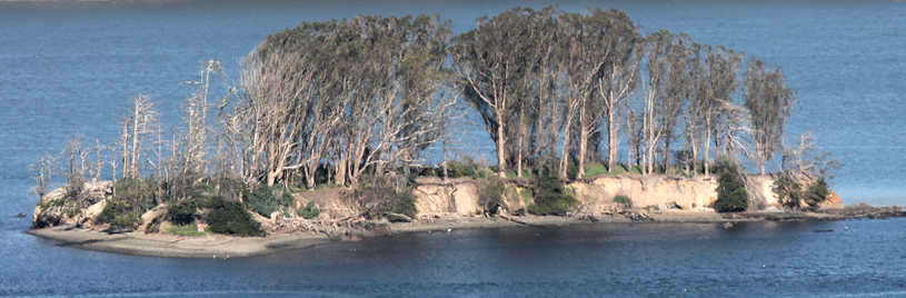 Hog Island in Tomales Bay, viewed from Upper Pierce Ranch in the Point Reyes National Seashore through a 250-mm lens, cropped and enhanced.